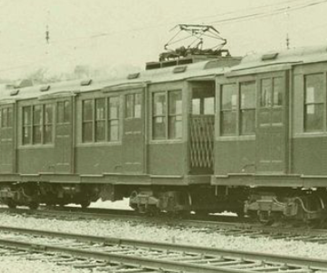 Electric Pantograph on Boston "Blue Line" (Revere Extension, 1924) Subway Car